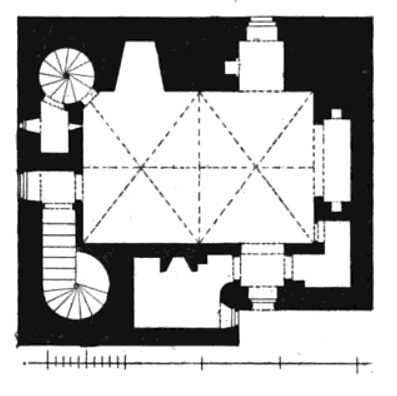 This is a floor plan of the Towie Barclay Castle